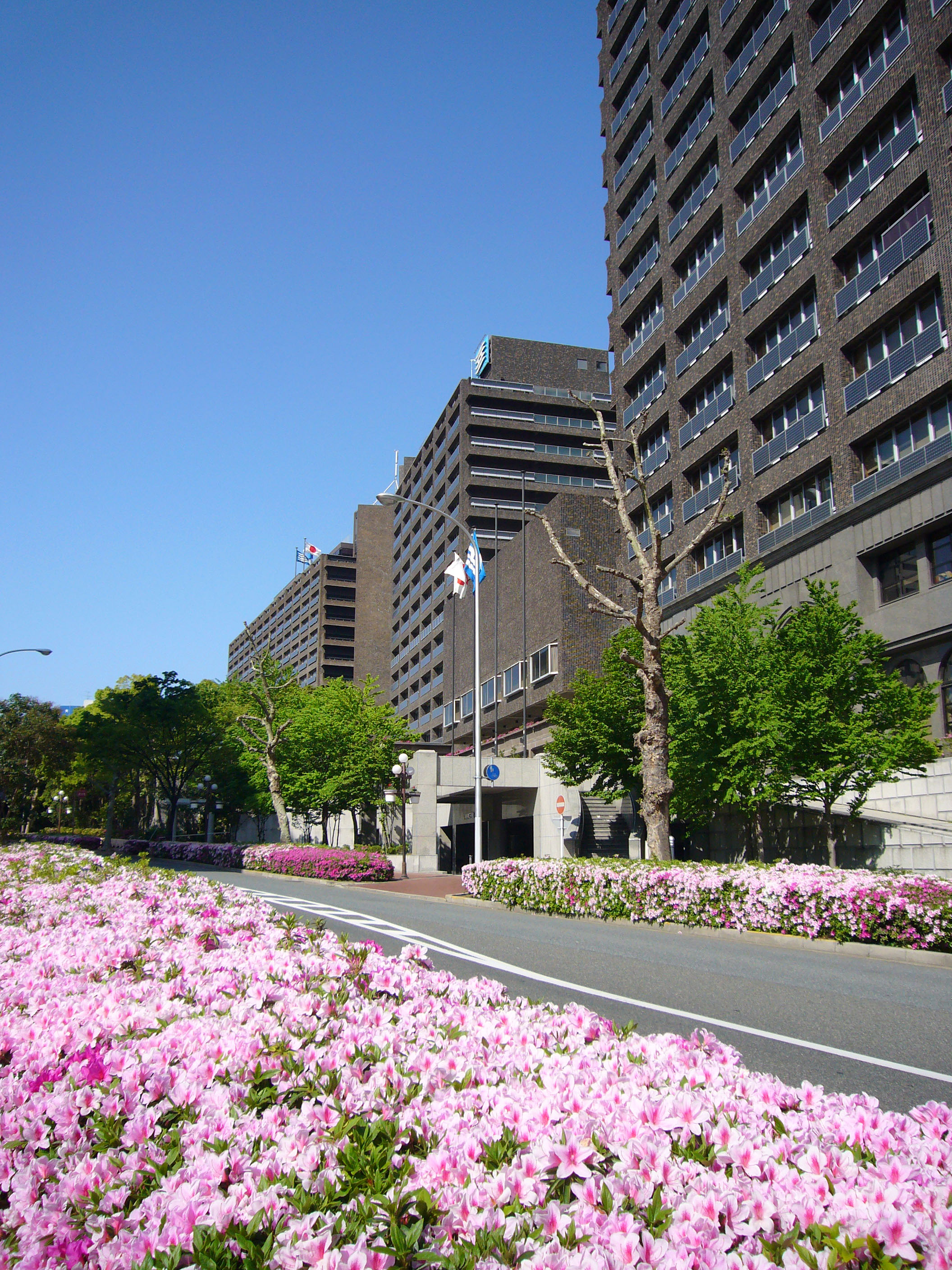 Hyogo Prefectural Office in Kobe, Hyogo prefecture, Japan